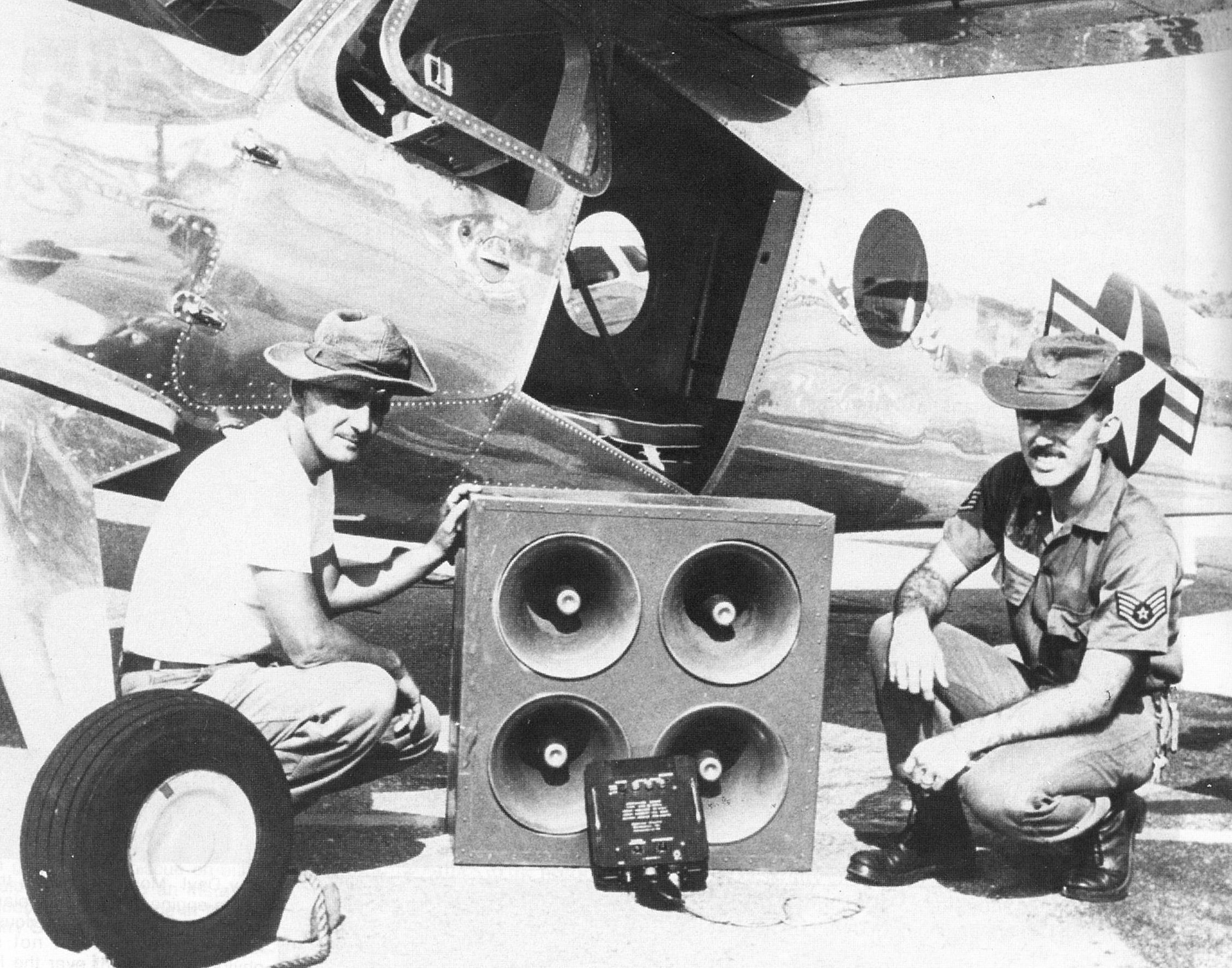 547th Special Operations Training Squadron Air Commandos training personnel display a loudspeaker setup for a U-10 Helio Courier aircraft. Although the communists in South Vietnam were effective in their propaganda, they also proved extremely vulnerable to its use against them.